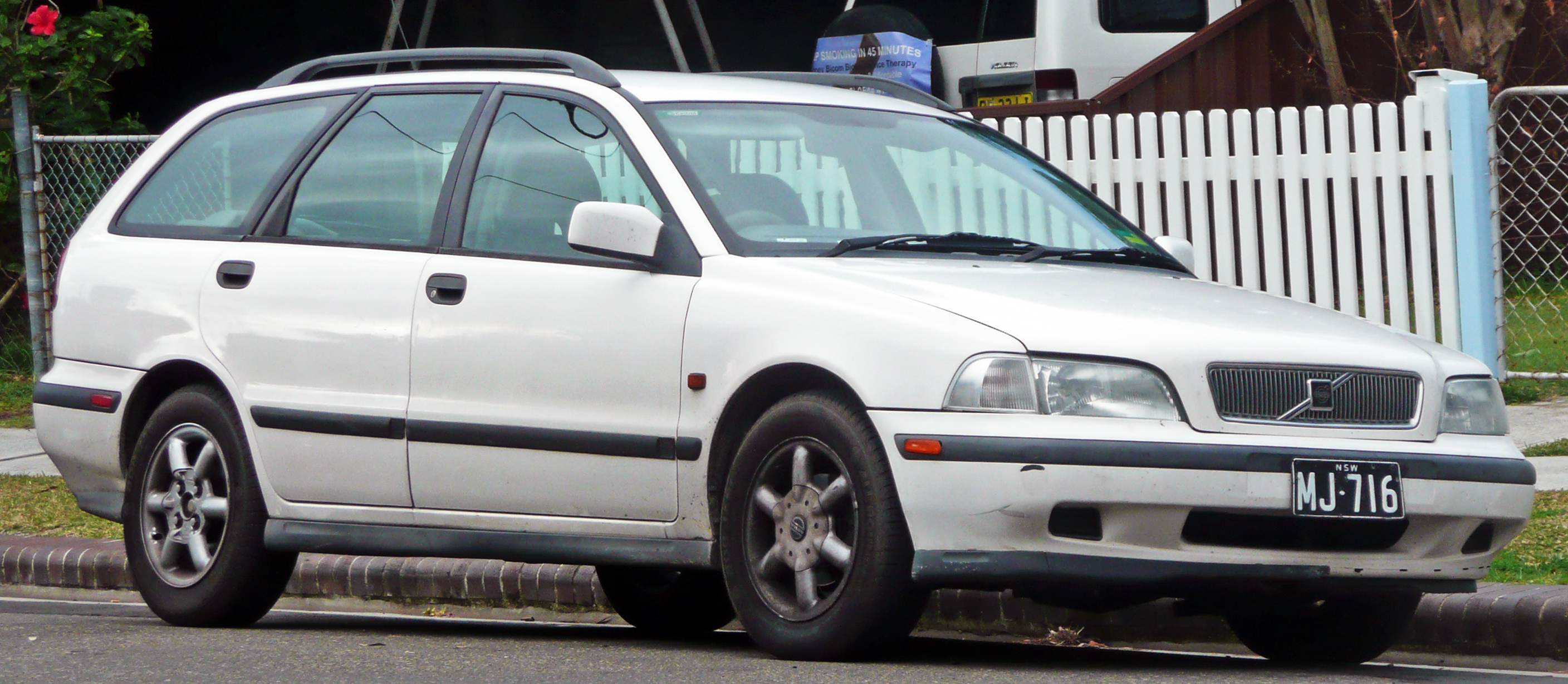 1997–2000 Volvo V40 2.0 station wagon. Photographed in Cronulla, New South Wales, Australia.